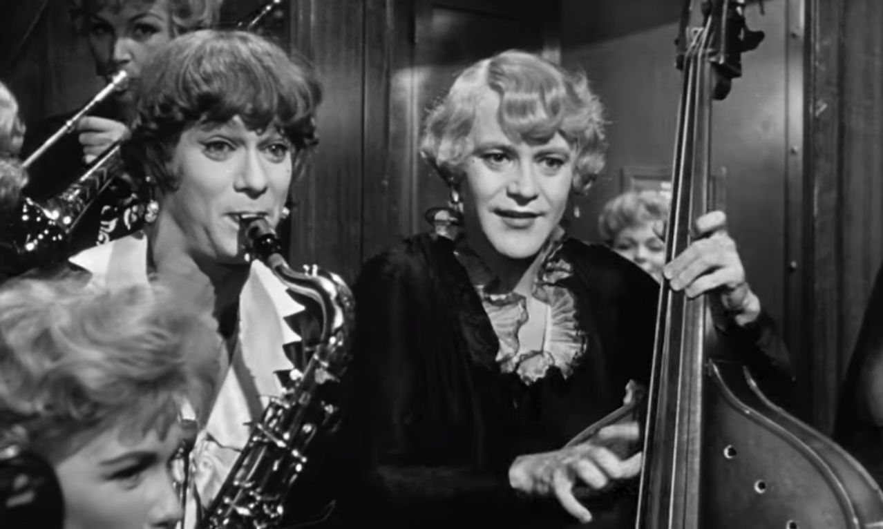 Some Like It Hot trailer screenshot